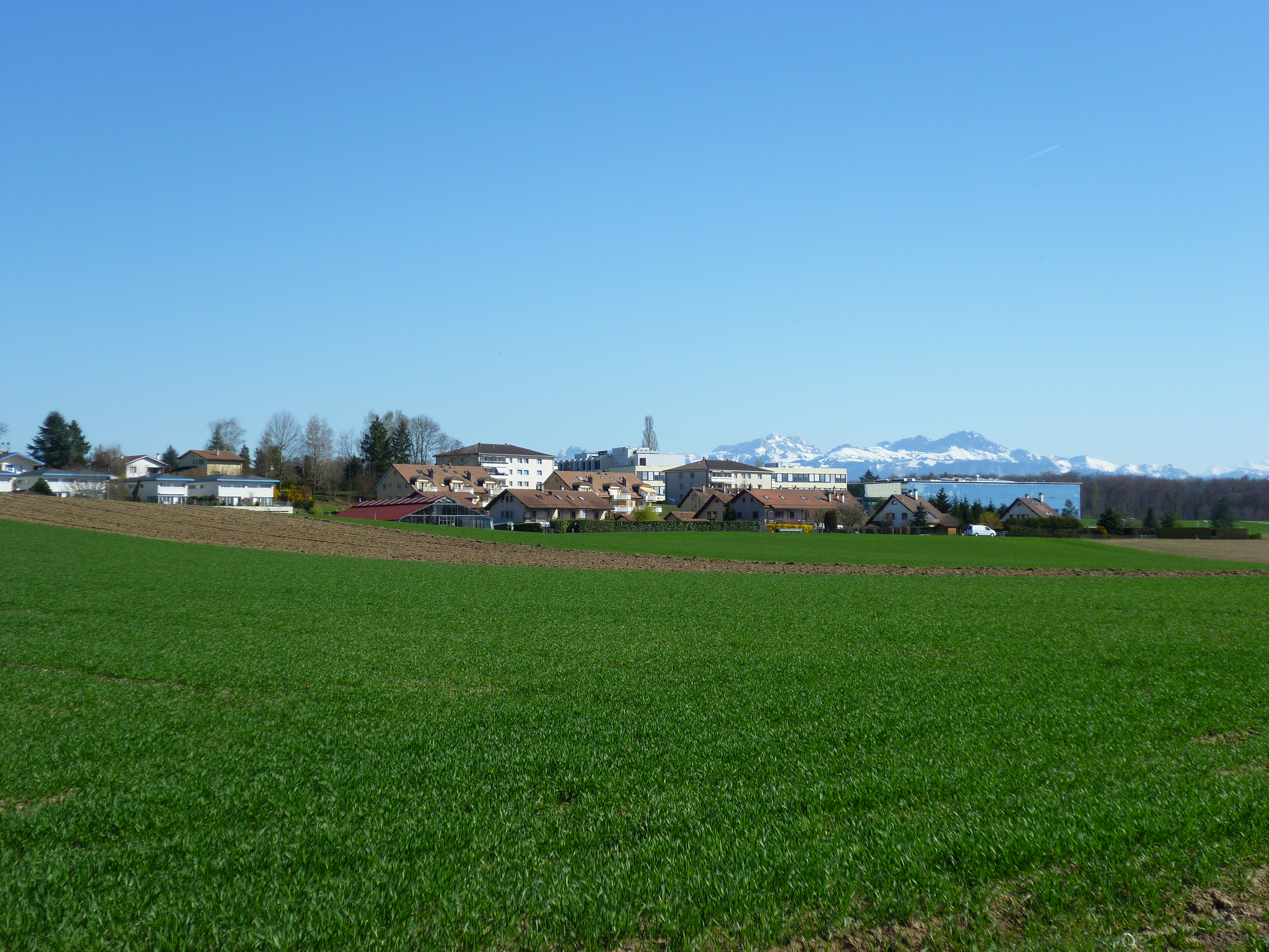 Cheseaux-Sur-Lausanne with Alps in background, Vaud, Switzerland